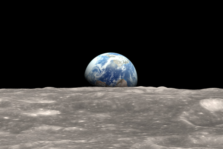 This image is a still from a NASA computer simulation that re-creates the rising of the Earth as viewed from the Moon, which was captured in the notable 1968 photograph Earthrise. The surface of the Moon is based on LRO data. Earth's cloud patterns are based on the Environmental Science Services Administration 7 satellite as it observed our planet on December 24, 1968. The land surface is based on the Earth Observatory’s Terra MODIS Blue Marble. This high-fidelity re-creation shows the rising Earth as it must have looked to Apollo 8 astronauts William Anders, Frank Borman, and Jim Lovell in 1968. The western coast of Africa is visible along the lower part of the globe, with Antarctica in the upper left and South America along the top.